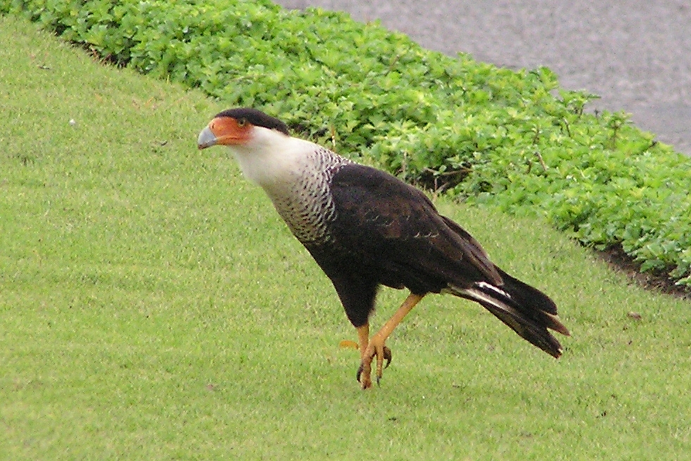 Crested Caracara (Caracara cheriway) by roadside in Guanacaste, Costa Rica. Taken by Storkk.